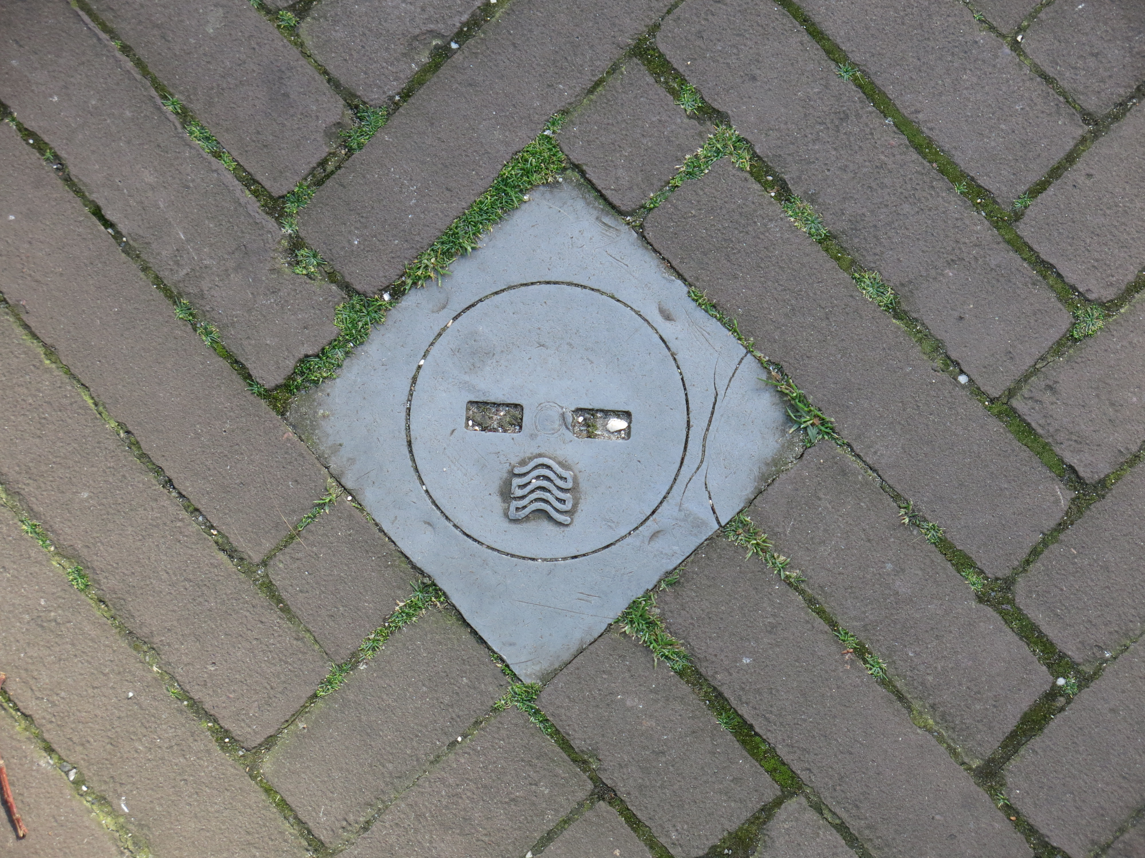 Pareidolia in the pavement in The Hague